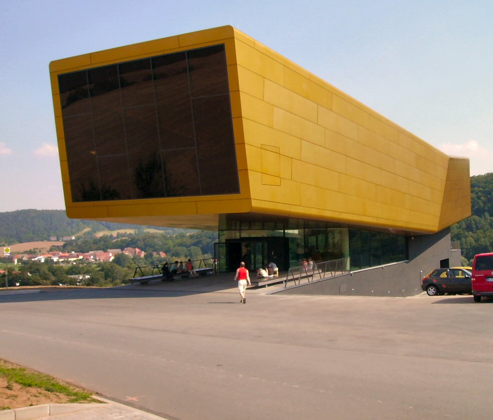 Visitor Center Arche Nebra